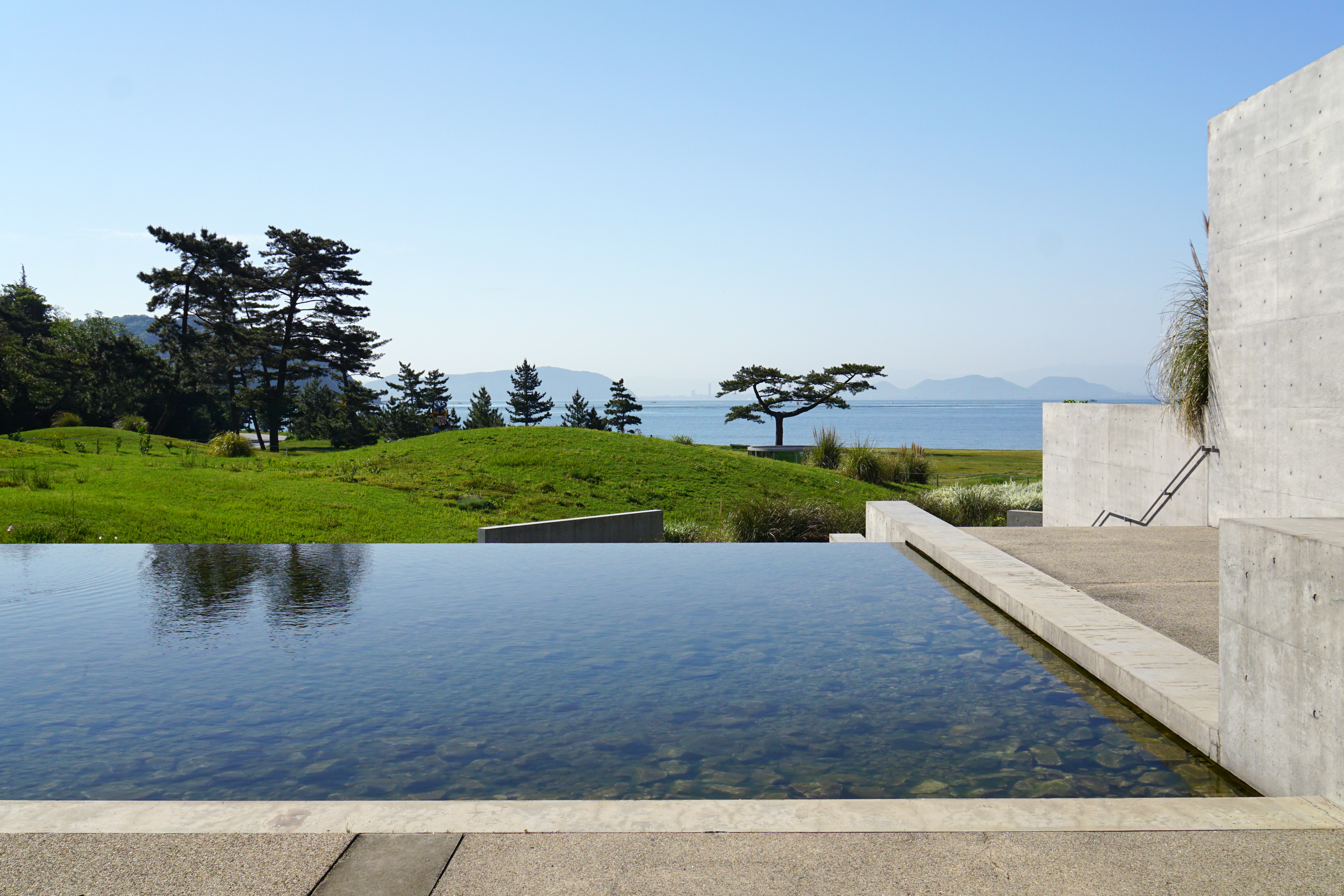 Benesse House "Park" of Benesse Art Site Naoshima in Naoshima, Kagawa prefecture, Japan